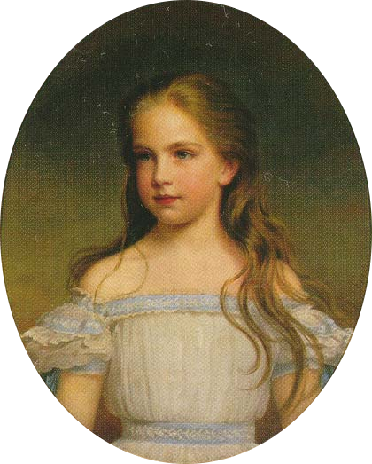 Archduchess Gisela of Austria as small child